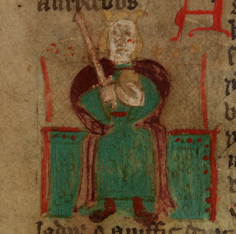 Uthr Bendragon. A crude illustration from a 15th century Welsh language version of Geoffrey of Monmouth’s highly influential Historia Regum Britanniae (‘History of the Kings of Britain’)